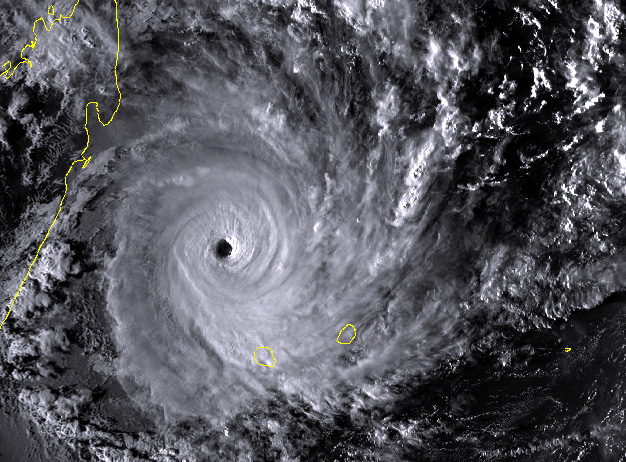 Tropical Cyclone Bonita of 1996.